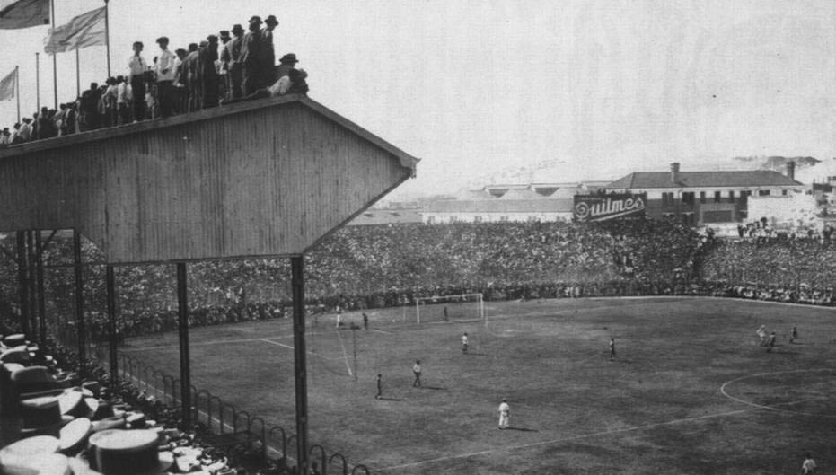 Boca Juniors stadium with wood grandstands. Placed in Brandsen and Del Crucero streets of La Boca, it would be demolished to built La Bombonera in the same place.